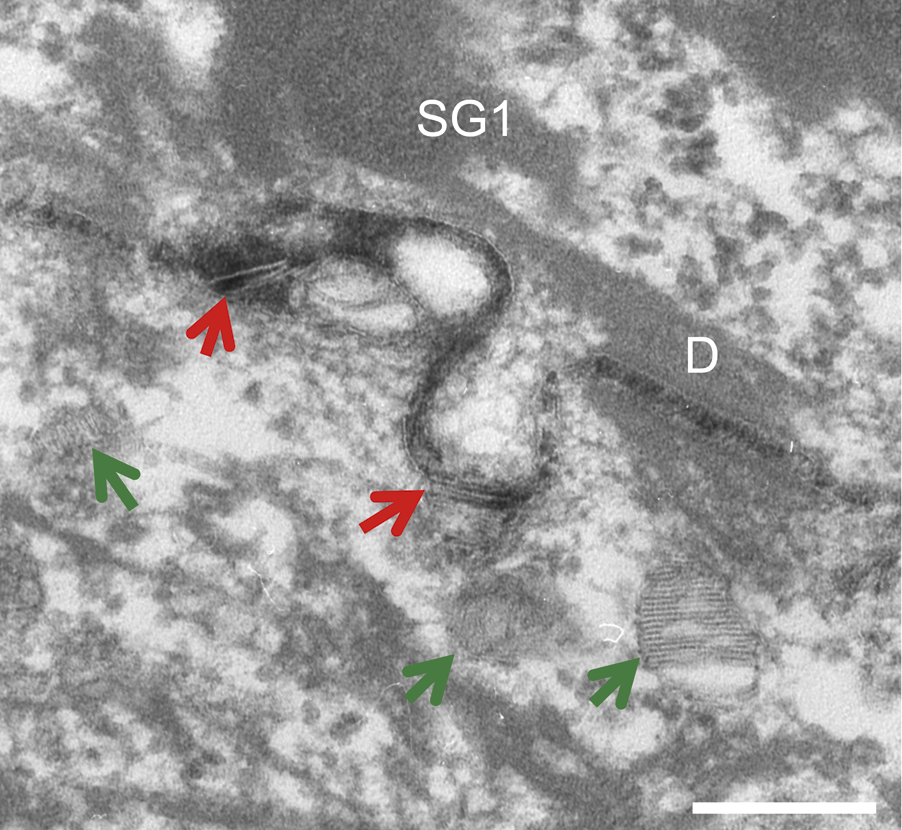 LGs start being secreted before establishment of paracellular permeability barrier. (A, B) TJ permeability assay using a surface biotinylation technique. LG molecules, CDSN and glucosylceramides (GlcCer) are co-localized with biotin (areas between arrowheads). A part of CDSN/biotin image in A is magnified in A′ and the points where the tracer stops are indicated with yellow arrows. The basement membrane zone is highlighted by the broken line. (C, D) Lanthanum penetration assay on normal human skin. (C) Lanthanum penetration is blocked at the TJ (bracket) in the SG1. (D) Secreted LGs (red arrows) can be found in the tracer permeable intercellular space. Green arrows indicate LGs in the cytoplasm. The area in the rectangle with broken lines in D is magnified in D′. D, desmosome. Bars = 10 µm (A, A′, B), 200 nm (C, D′) and 500 nm (D).